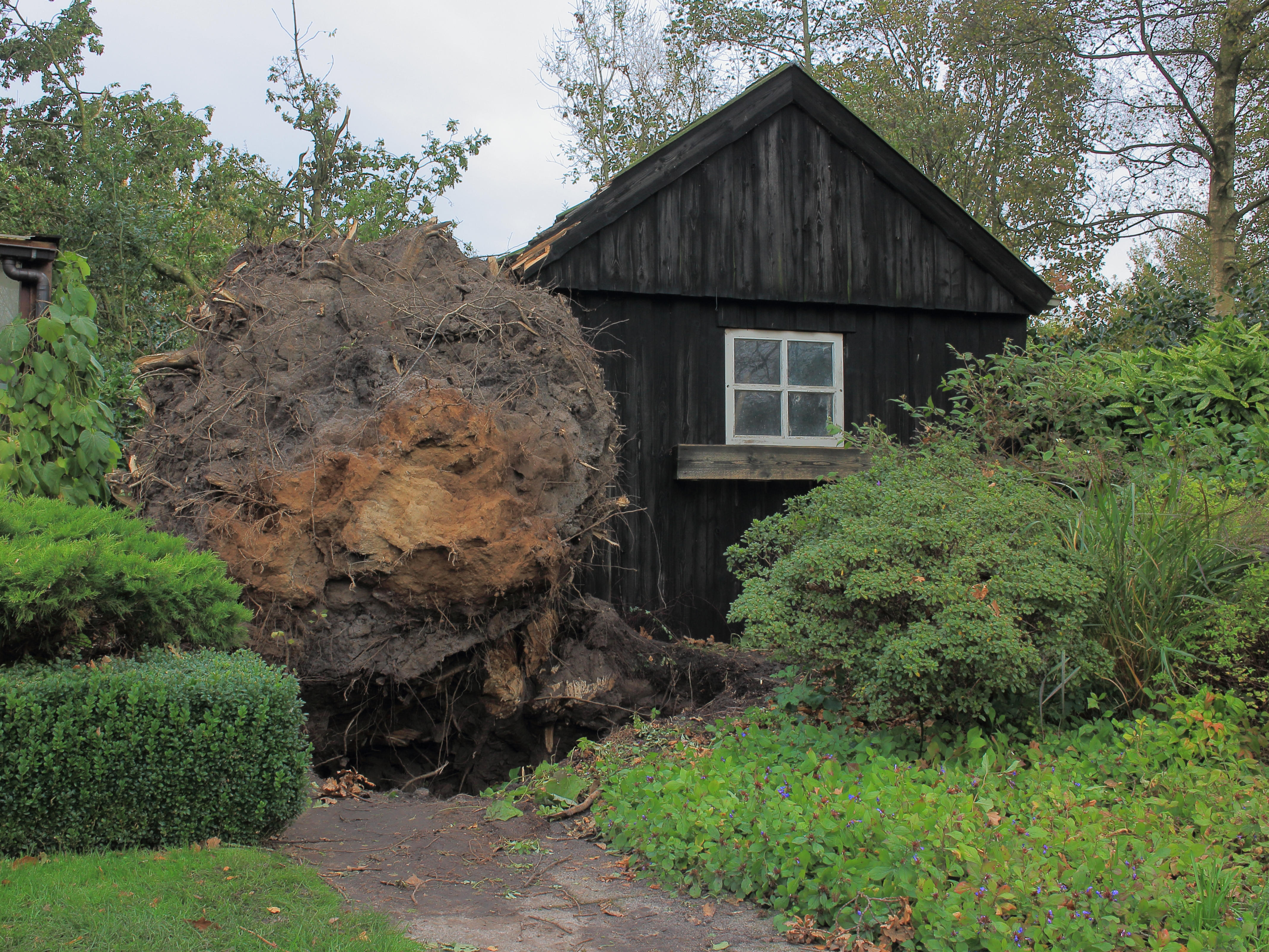 Storm Christian plaguing Netherlands on 28 10 2013. Location:Garden Sanctuary Jonker Valley